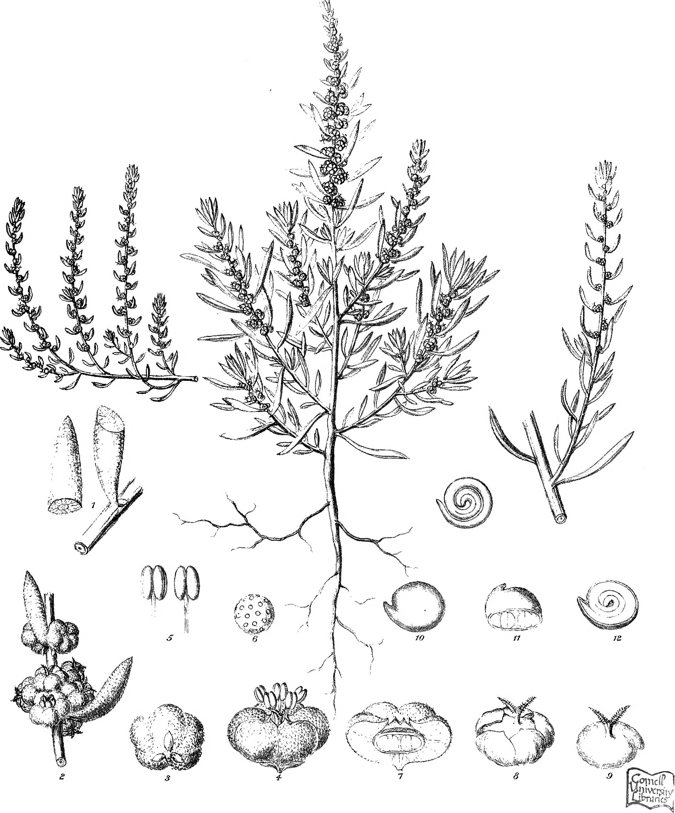 Title: Iconography of Australian salsolaceous plants Year: 1889 (1880s) Authors: Mueller, Ferdinand von, 1825-1896 Subjects: Shrubs; Salsoleae Publisher: Melbourne, Brain Text Appearing Before Image: IXXXK Text Appearing After Image: RGraff del s,Litk. FvM imexih. O 71 O Steam Litho Gov, Prant±ig' Office.Melt. )msL(Bdl^ iMiaiipMniMSL Dumorlier